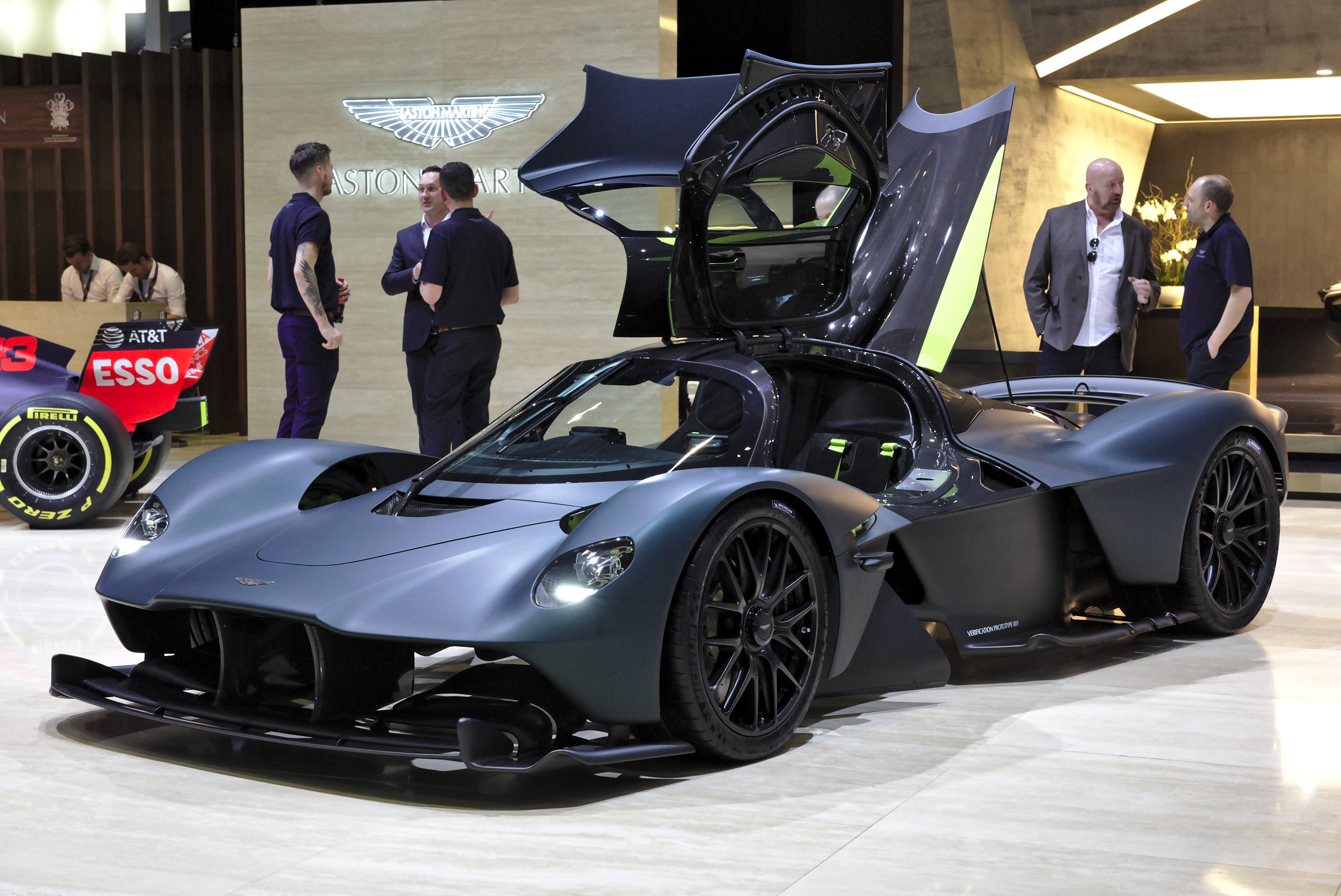 Aston Martin Valkyrie at Geneva Motor Show 2019